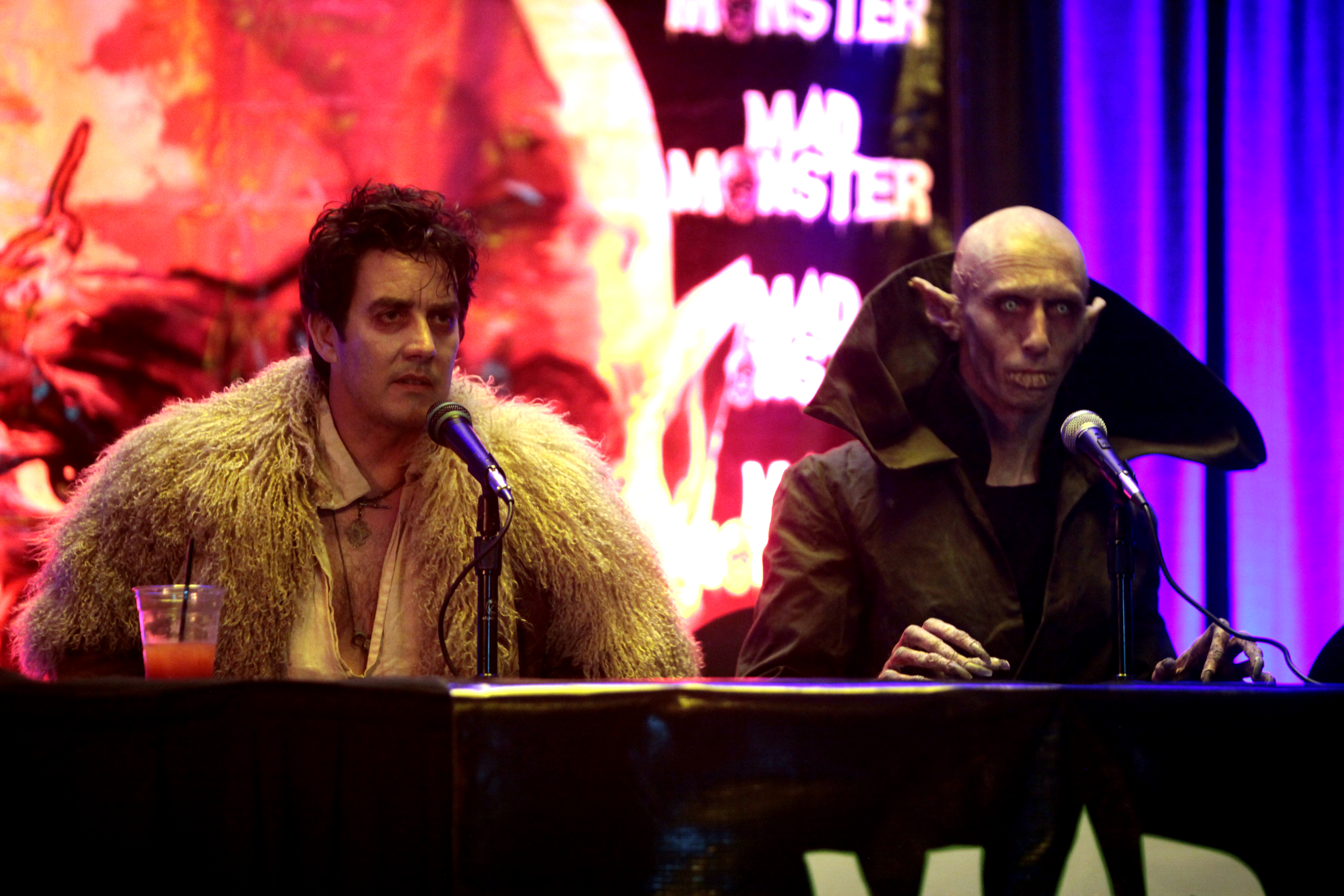 Jonathan Brugh and Ben Fransham speaking at the 2016 Mad Monster Arizona at the We-Ko-Pa Resort & Conference Center in Scottsdale, Arizona.